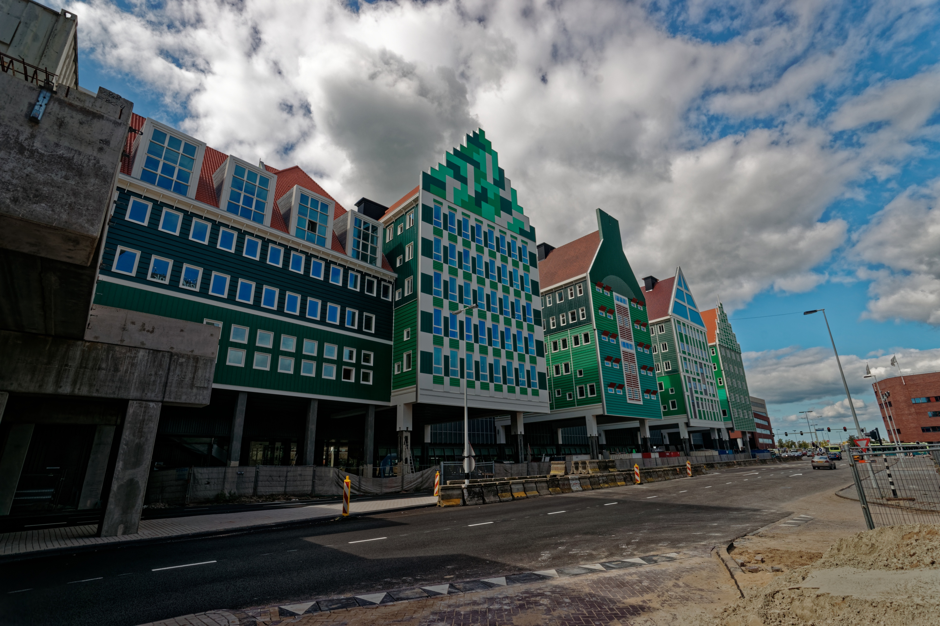 Zaandam - Provincialeweg - View NW